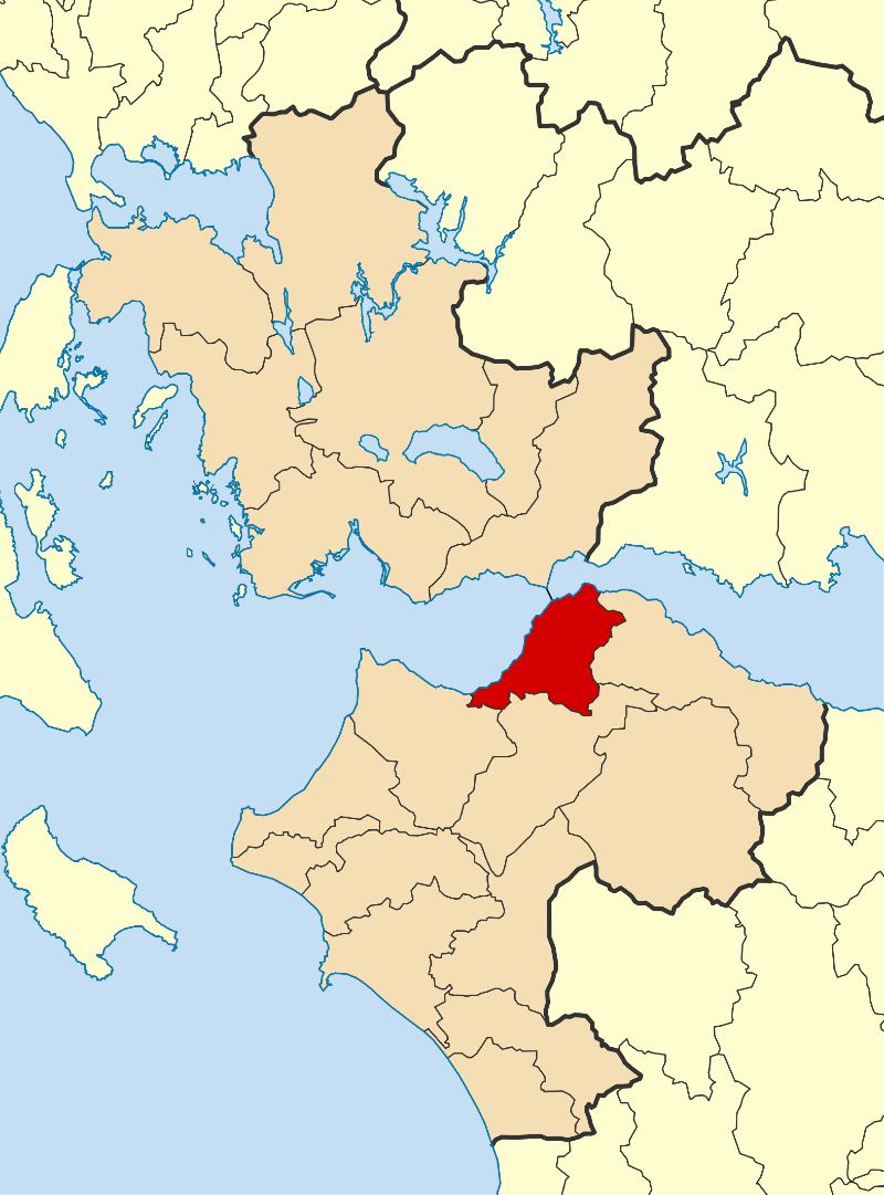 Locator map for Patras municipality in Greek region Western Greece (2011)